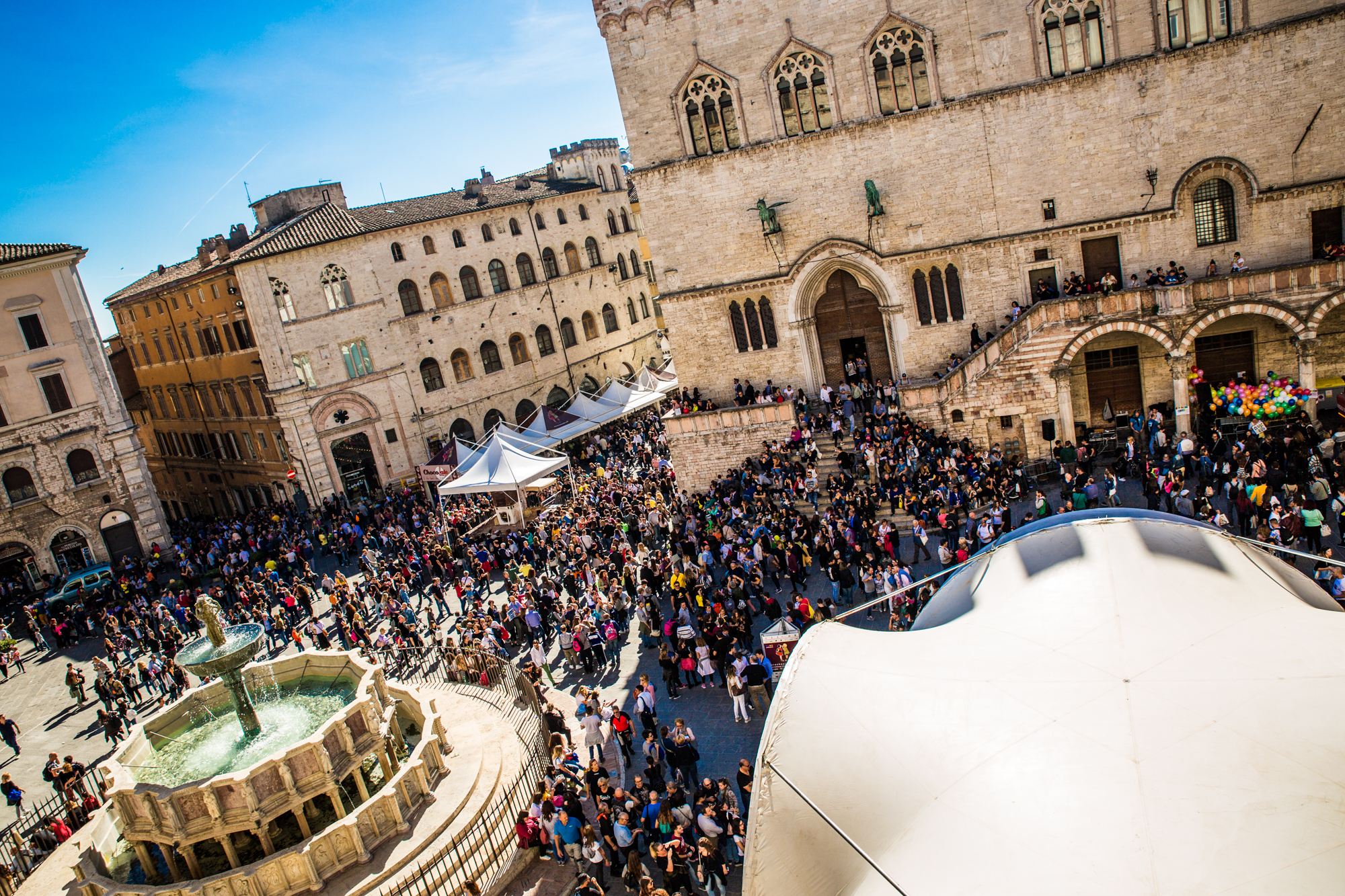 Eurochocolate Piazza IV Novembre